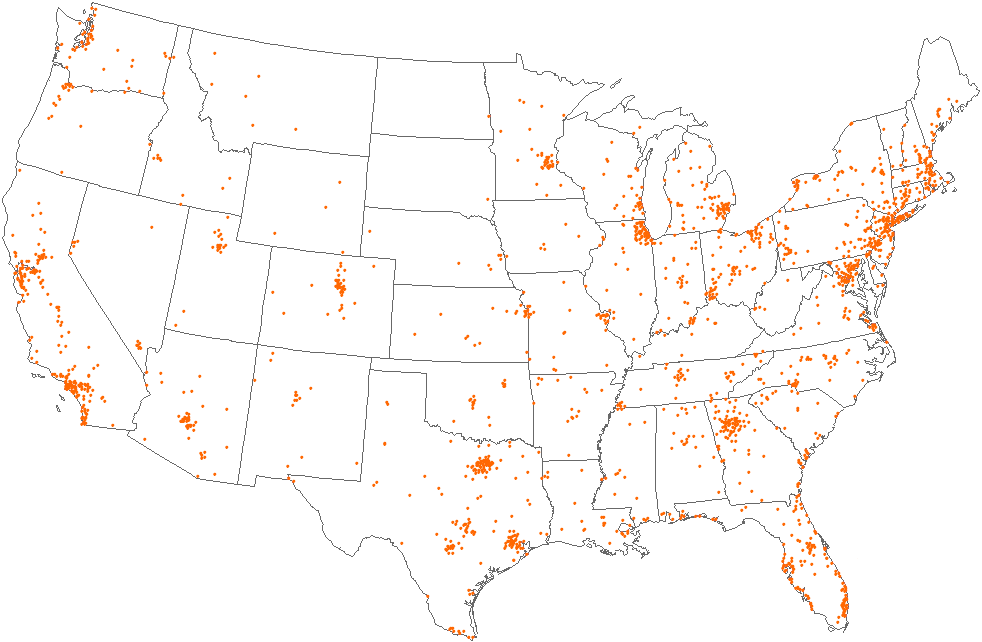 Home Depot store openings from 1977 to 2006. The first store opened in Atlanta in 1978.